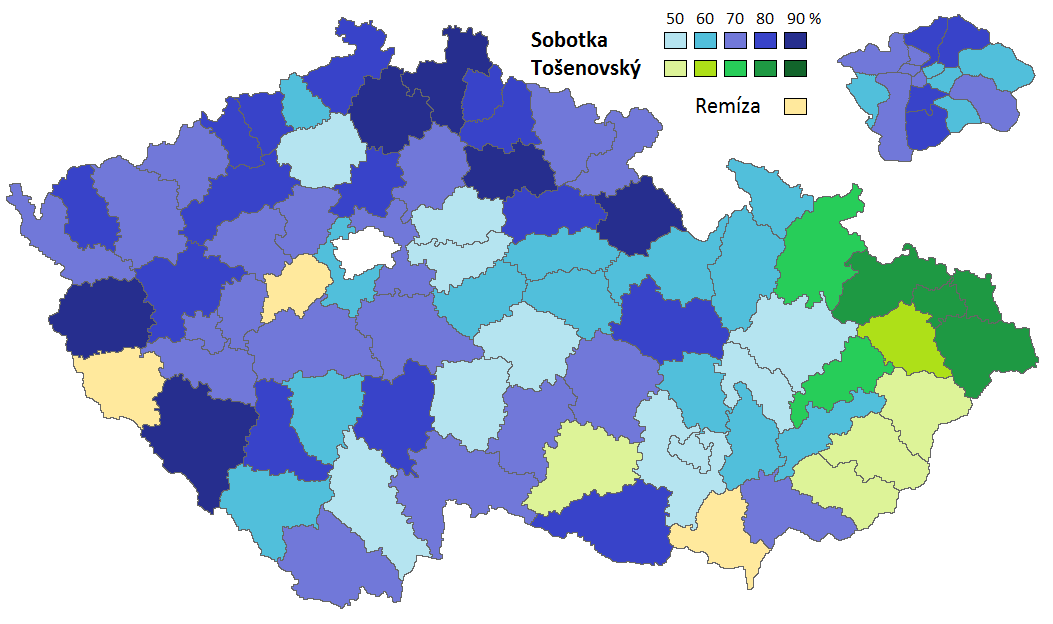 Czech Civic Democratic Party 2012 presidential primaries results (popular vote by districts).